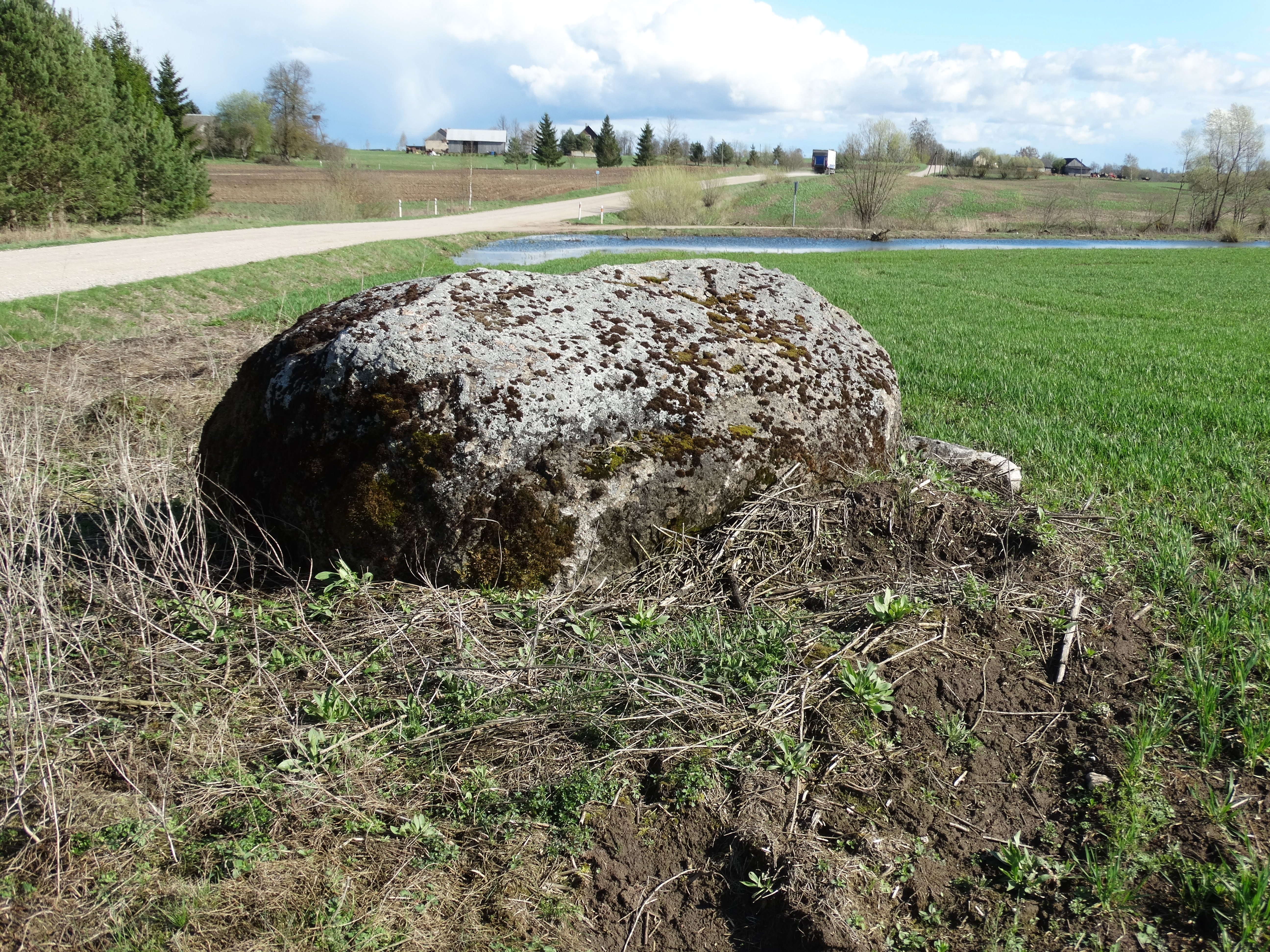 Vošiškės, Prienai district, Lithuania